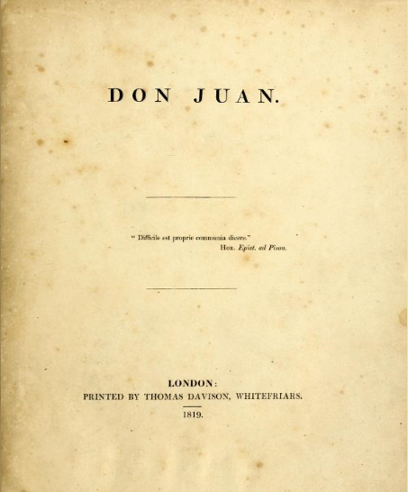 This is the first edition cover of Don Juan, published in 1819.